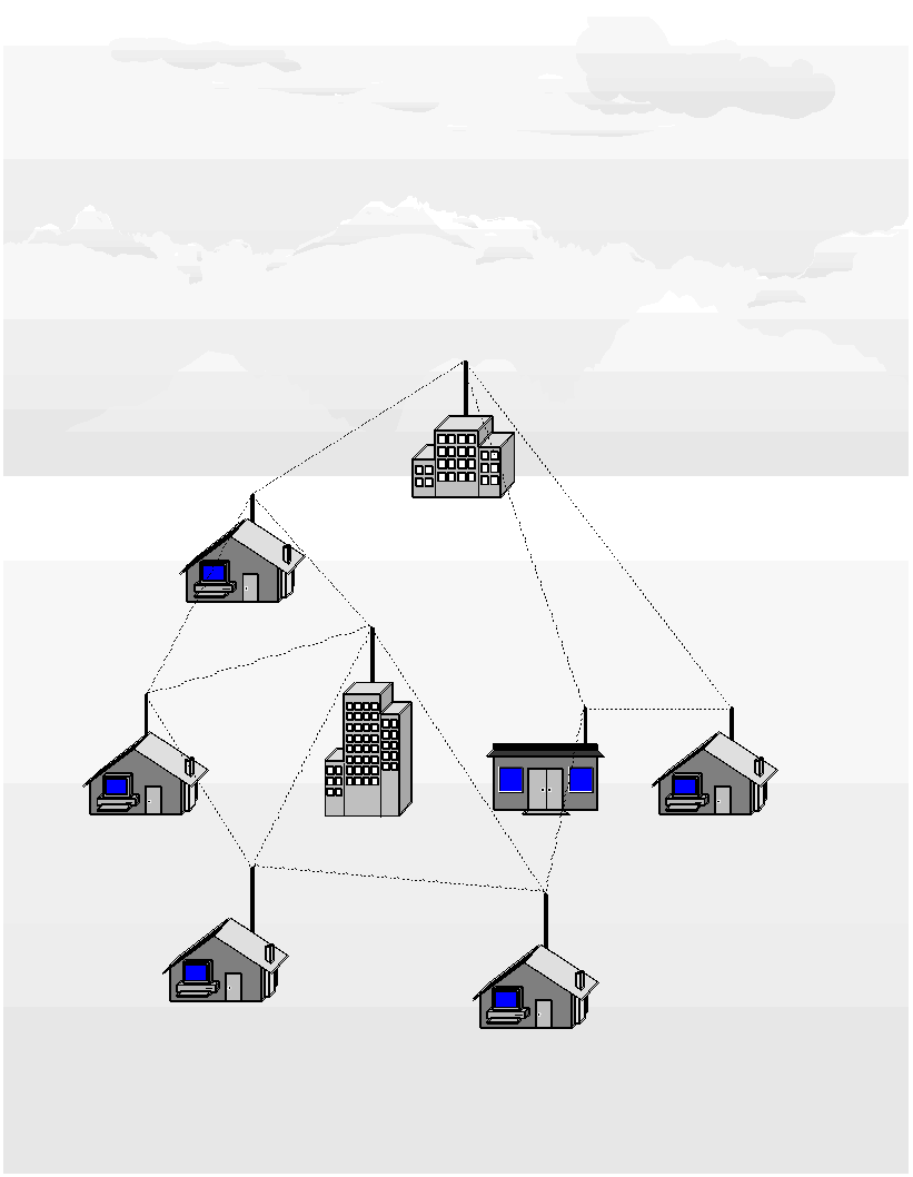 Visio Diagram to show a wireless mesh in a city-wide deployment